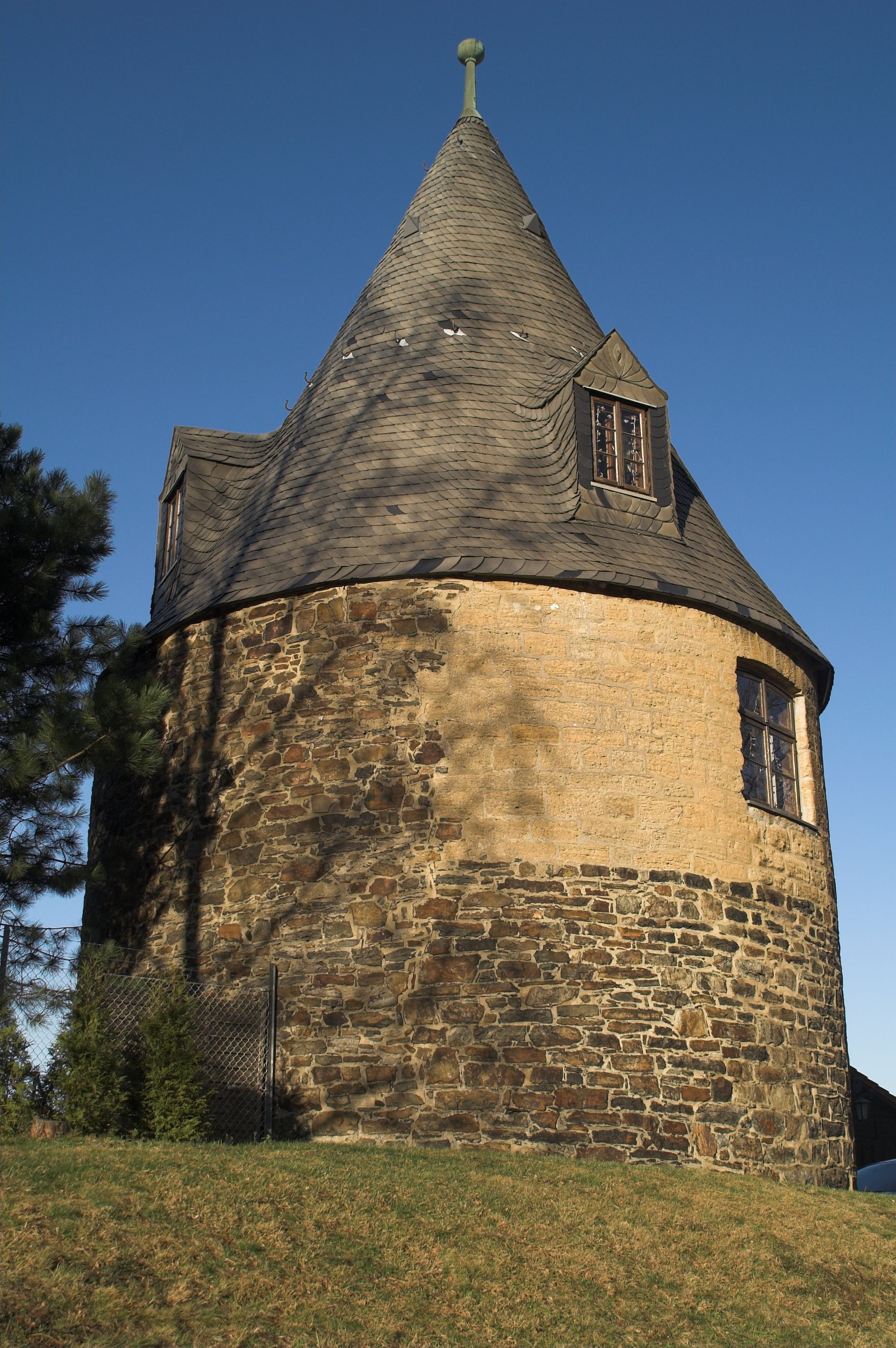 Maltermeister tower near Goslar, Germany. It belongs to the ancient Rammelsberg mining complex.